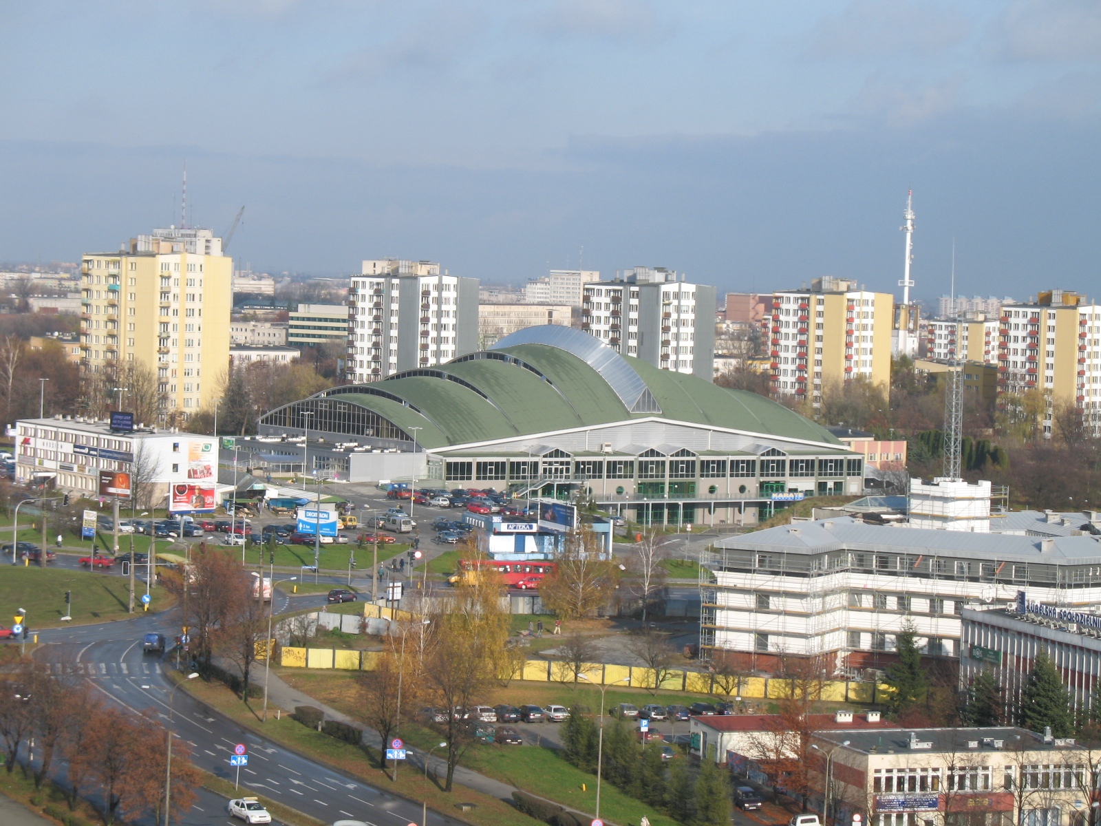 "Globus" sport hall in Lublin, Poland